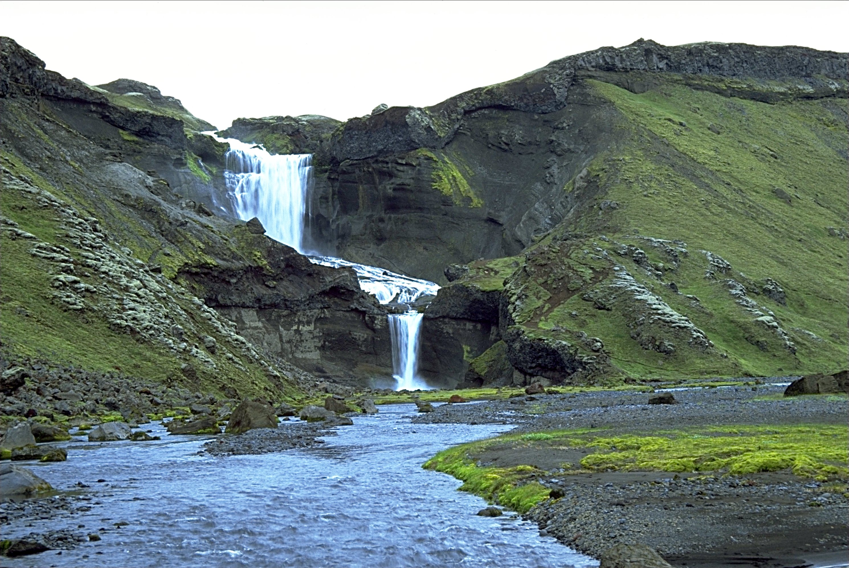 Ófærufoss, Iceland Photo was taken using the following technique: Film: Fuji Velvia Lens: 4/35-70 Filter: Body: Minolta Dynax 7 Support: Manfrotto 190B Image with Information in English Bild mit Informationen auf Deutsch